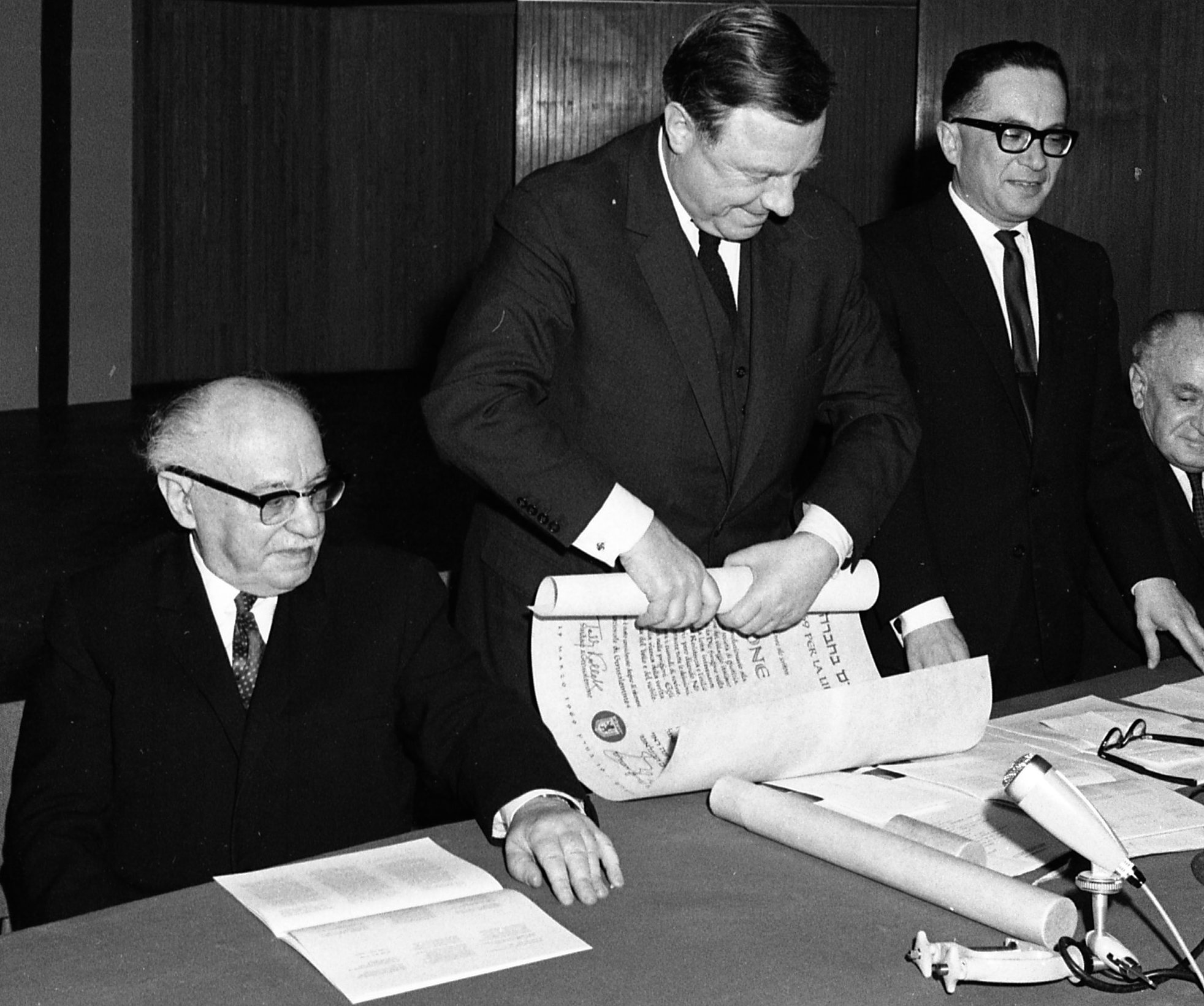 Jerusalem International Book Fair, 1969.